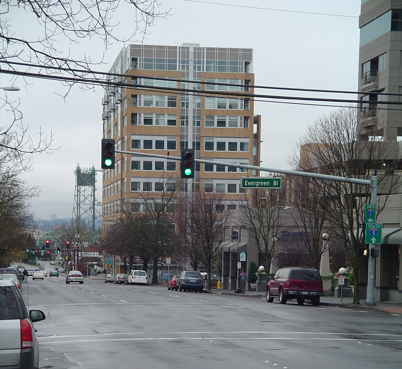 Evergreen Blvd and the Interstate Bridge in downtown Vancouver Washington.